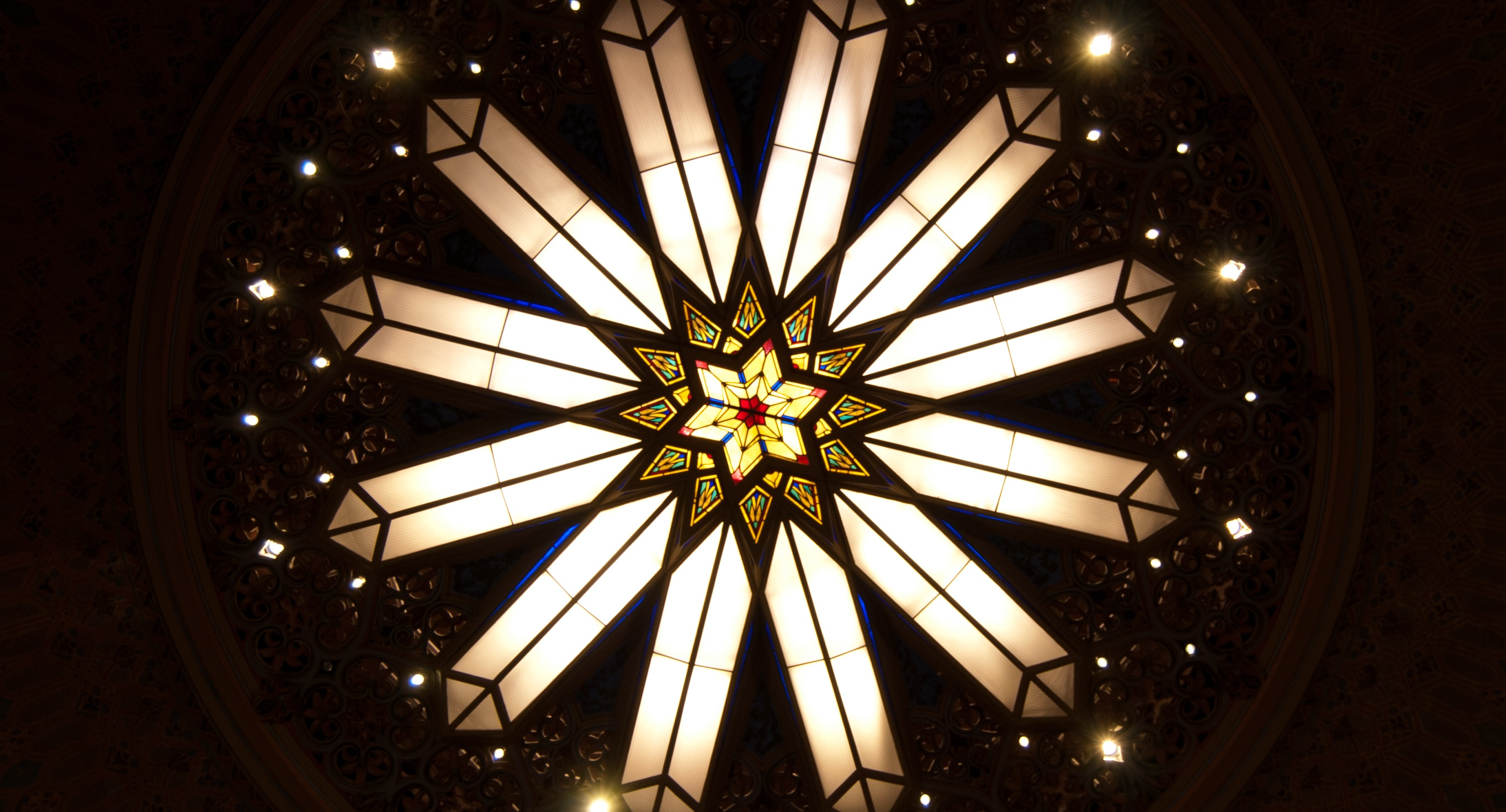 ceiling light fixture of Rodeph Shalom Synagogue's sanctuary